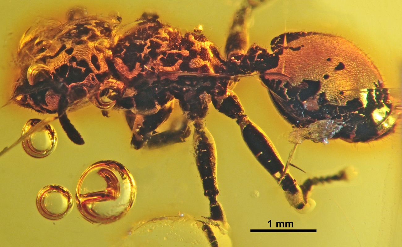 Dorsal view of the Cephalotes alveolatus holotype worker. Dominican amber, Burdigalian; Dominican Republic, Hispaniola Staatliches Museum fur Naturkunde, specimen SMNSDO5691